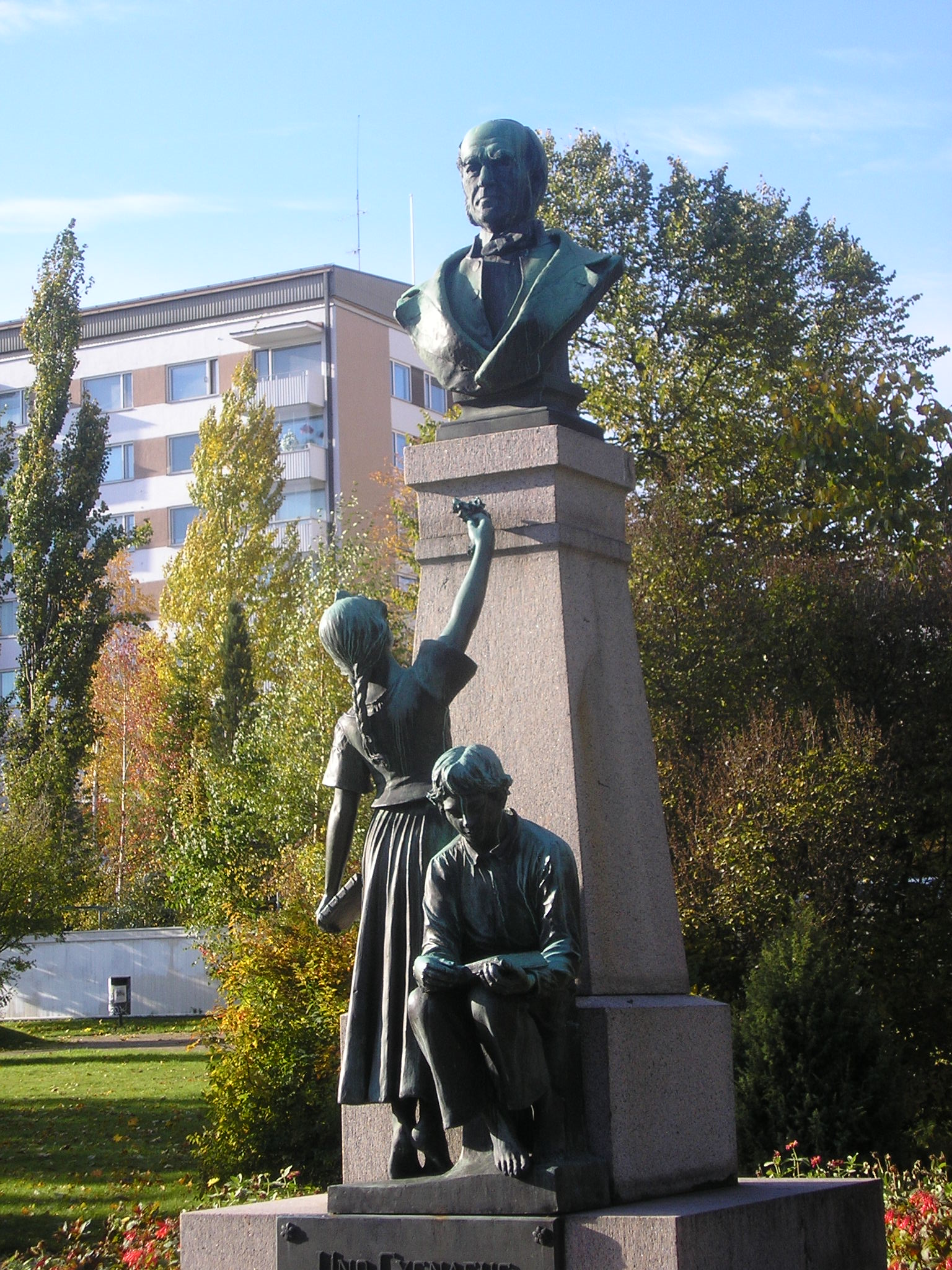 Statue of Uno Cygnaeus by Ville Vallgren in Jyväskylä, Finland